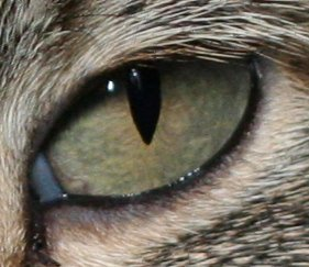 Photographed by and copyright of (c) David Corby (User:Miskatonic, uploader) 2006 Close up of a house cat pupil.